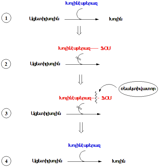 The mechanism of acetylcholinesterase reactivation